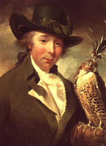 Portrait of a Man with Falcon